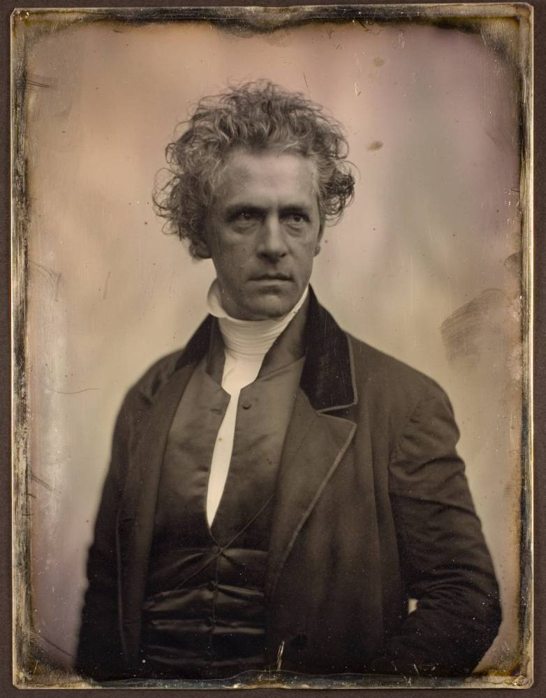 Accession Number: 1974:0193:0141 Maker: Southworth & Hawes (American Active ca. 1845-1861) Title: Rollin Heber Neale Date: ca. 1850 Medium: daguerreotype Dimensions: whole plate, 21.5 X 16.5 cm. George Eastman House Collection General information about the George Eastman House Photography Collection is available at [1]. For information on obtaining reproductions go to